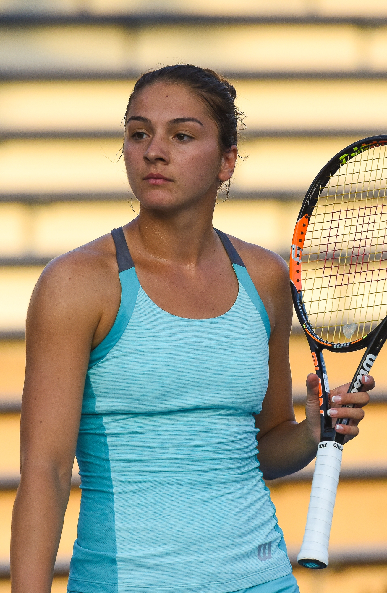 August 25, 2015 Court 7 Flushing, NY